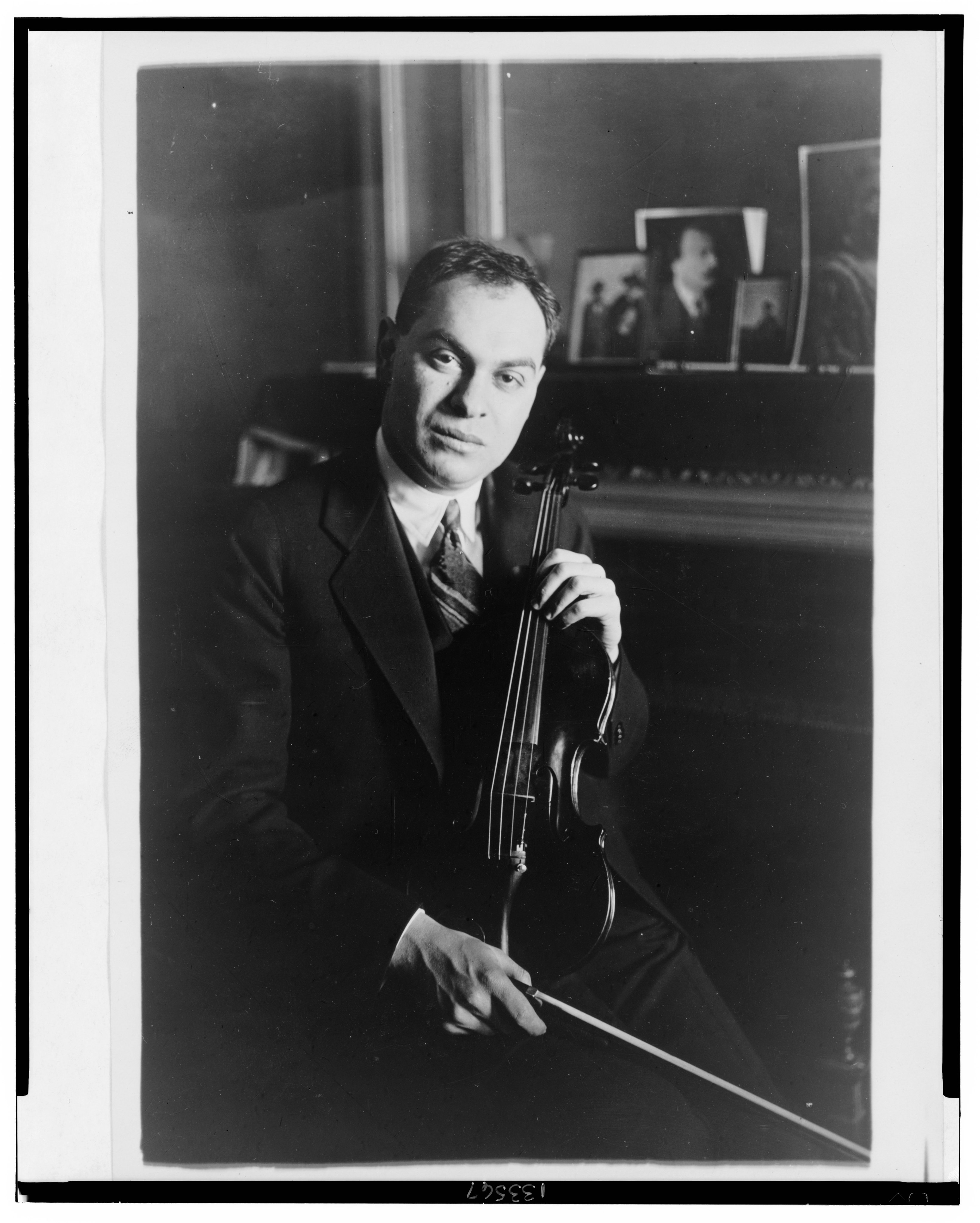 Title: Eddy Brown, half-length portrait, seated, holding his violin Abstract/medium: 1 photographic print.